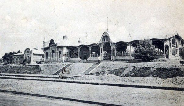 Railway station Pokrovsk-Streshnevo in 1905